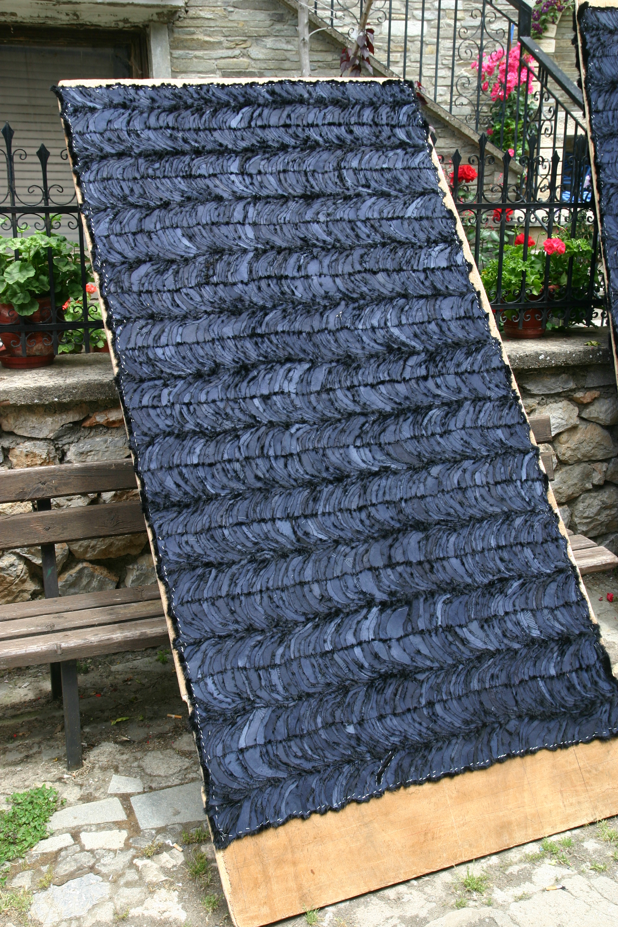 Mink fur paws plate, leather side. Small pieces of back mink-paws are sewn together and left to dry in front of a workshop in Kastoria (Greece)